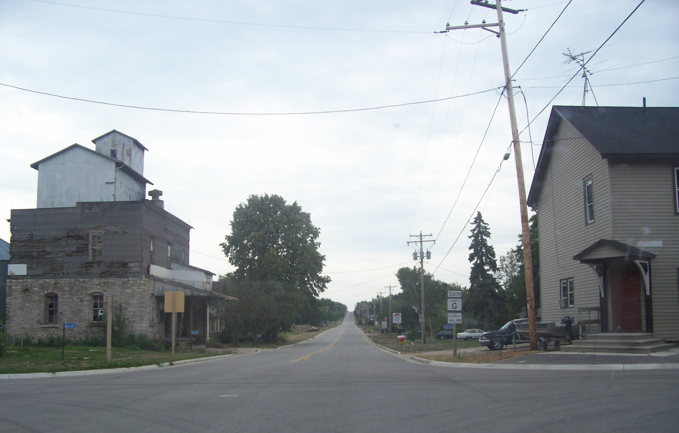 Former Wisconsin Highway 149 (straight ahead), at a former south turn in Marytown. Highway 149 used to come from the left. The road straight ahead is now exclusively Fond du Lac County G (no longer concurrent with the Highway), and to the left is now an extension of County HH (HH used to terminate at this intersection from the right). I took this image myself on August 17, 2006. Category:Images of Wisconsin highways